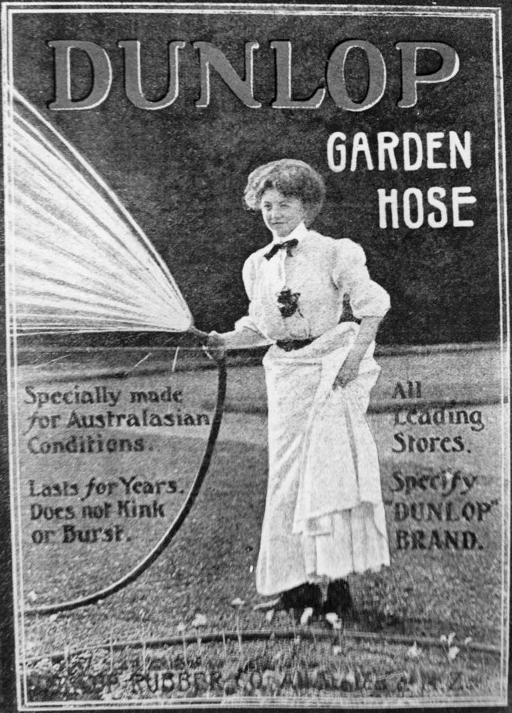 Advertisement for Dunlop garden hoses Woman watering with a rubber garden hose.